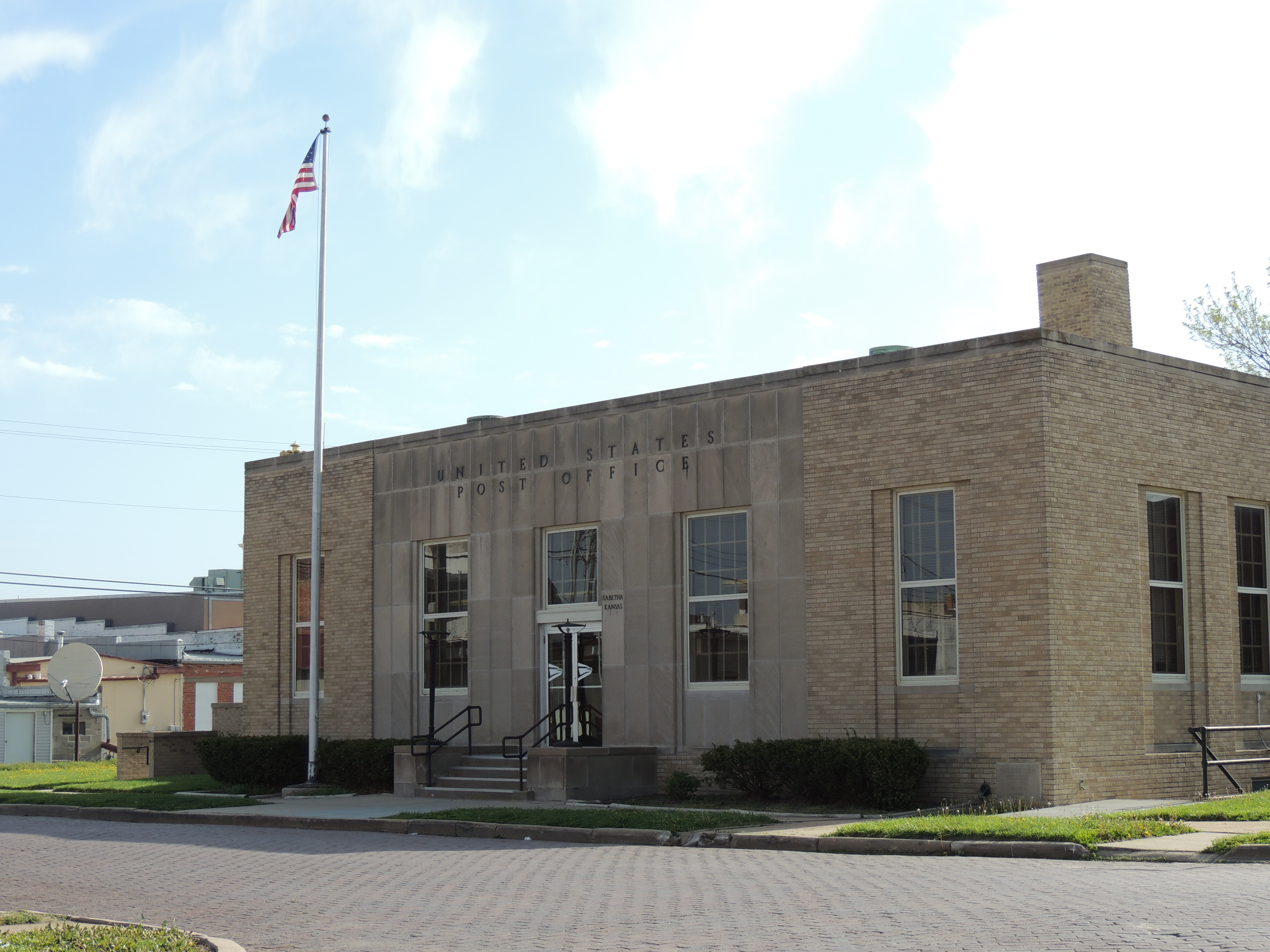 US Post Office Sabetha Kansas